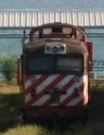 1800 Series locomotive of the old portuguese national operator, Caminhos de Ferro Portugueses, parked in the old trainyard of Barreiro Train Station, in Portugal.